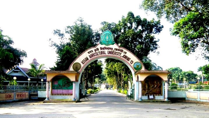 Jorhat